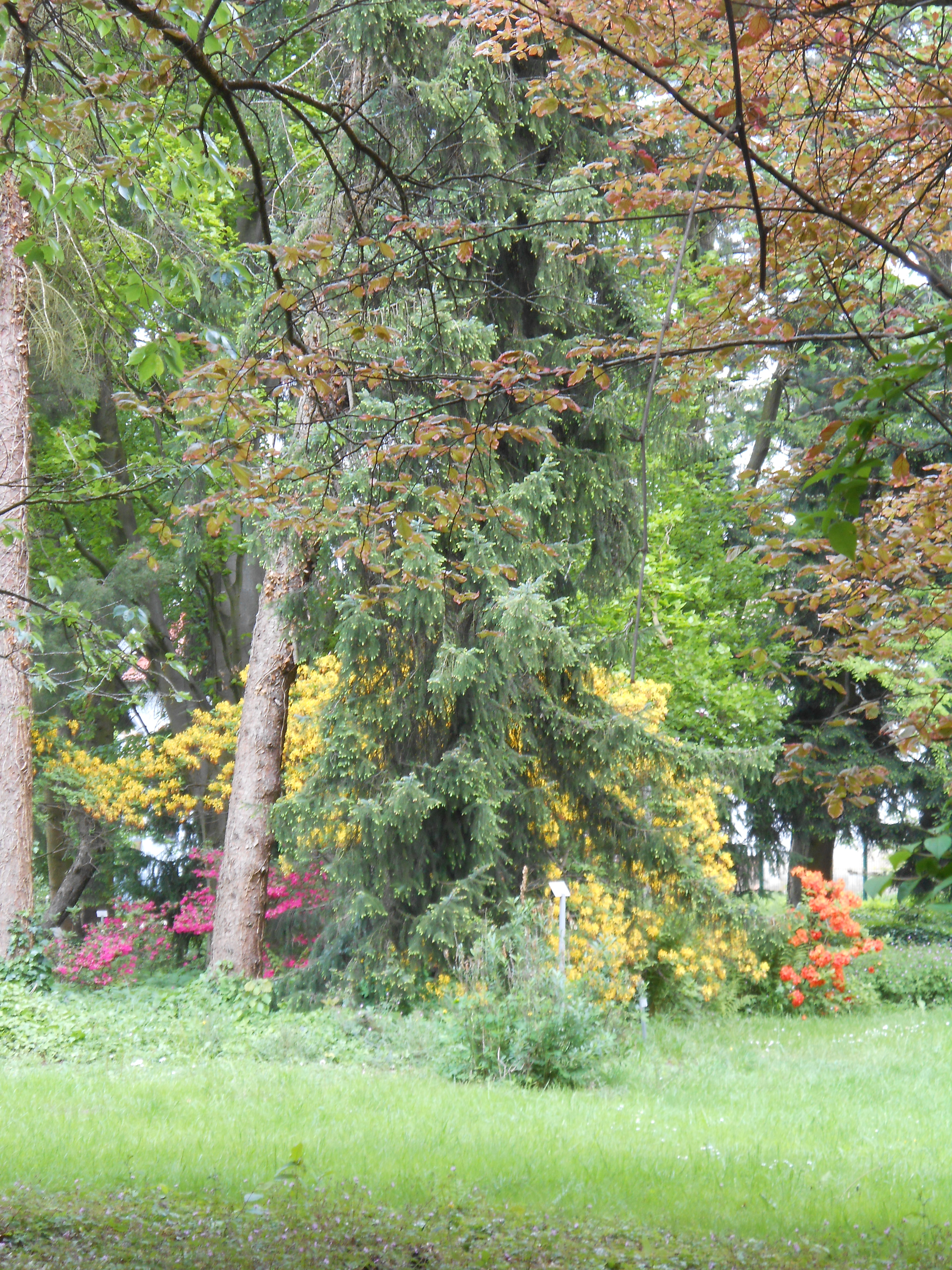 Garden of Remembrance and Comradeship in Petanjci, Slovenia